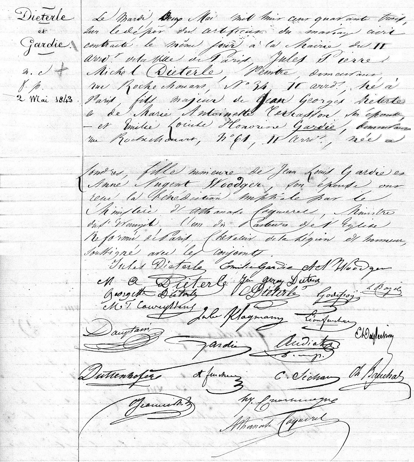 Protestant marriage certificate of Jules Diéterle (1811-1889), with Émilie Gardie (1823-1874) in Paris in the former 2nd district, the 2 May 1843. The wedding blessing is celebrated by the pastor of the Reformed Church, Athanase Coquerel. The original act is on two pages.